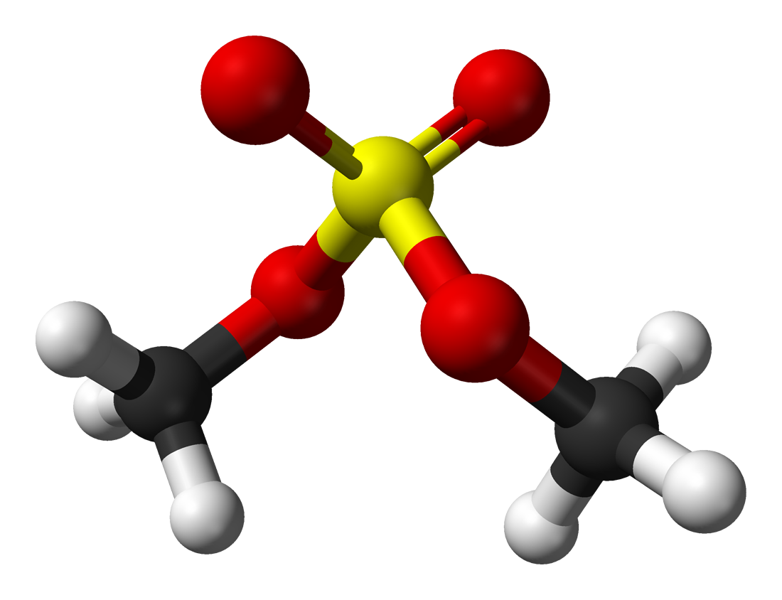 Ball-and-stick model of the dimethyl sulfate molecule, C2H6O4S. X-ray crystallographic data from R. M. Ibberson, M. T. F. Telling and S. Parsons (April 2006). "Structure determination and phase transition behaviour of dimethyl sulfate". Acta Cryst. 'B62' (2): 280-286. Image generated in Accelrys DS Visualizer.